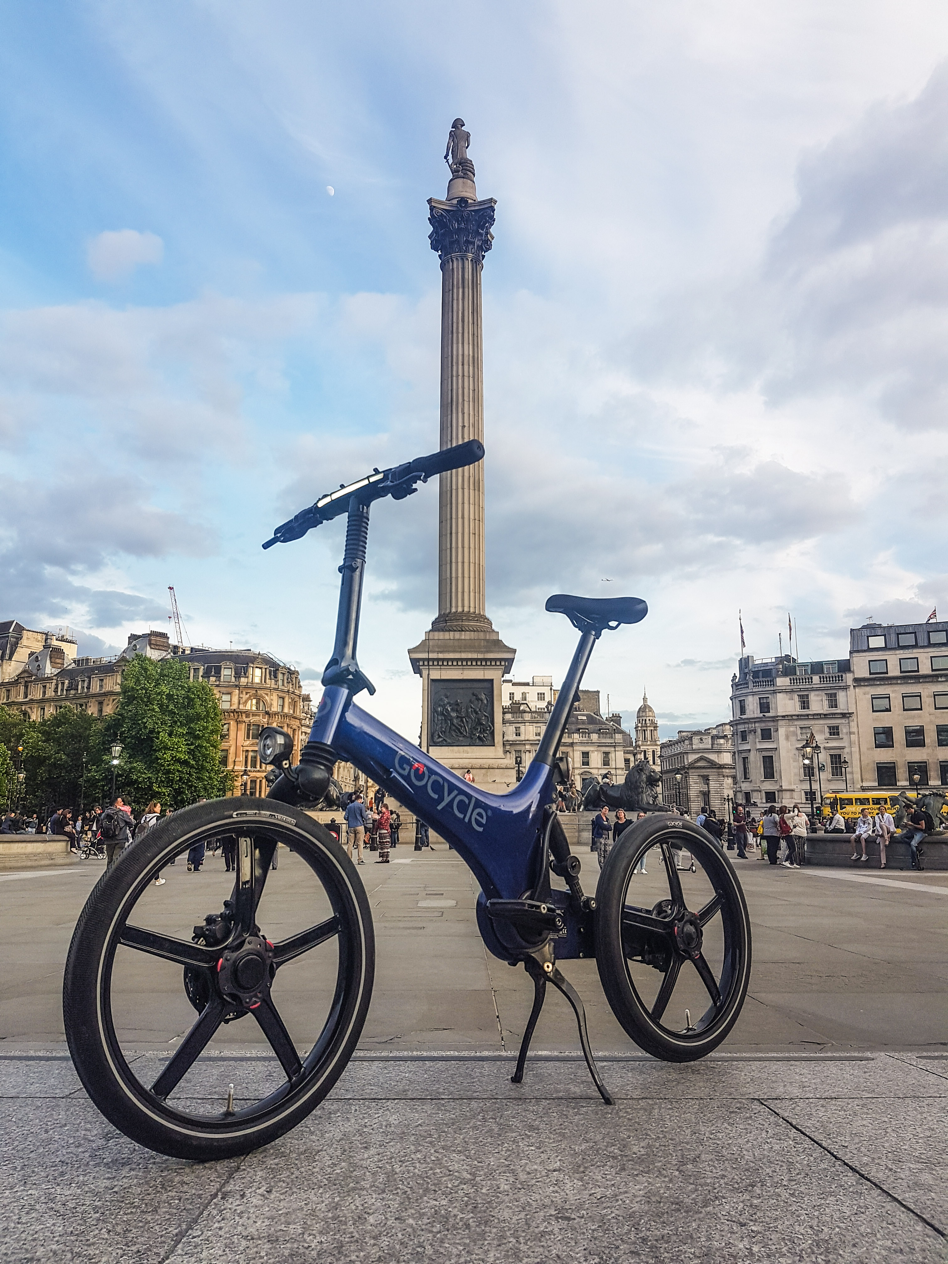 Gocycle G3 London Trafalgar square